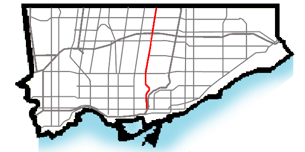 map of Bayview Avenue